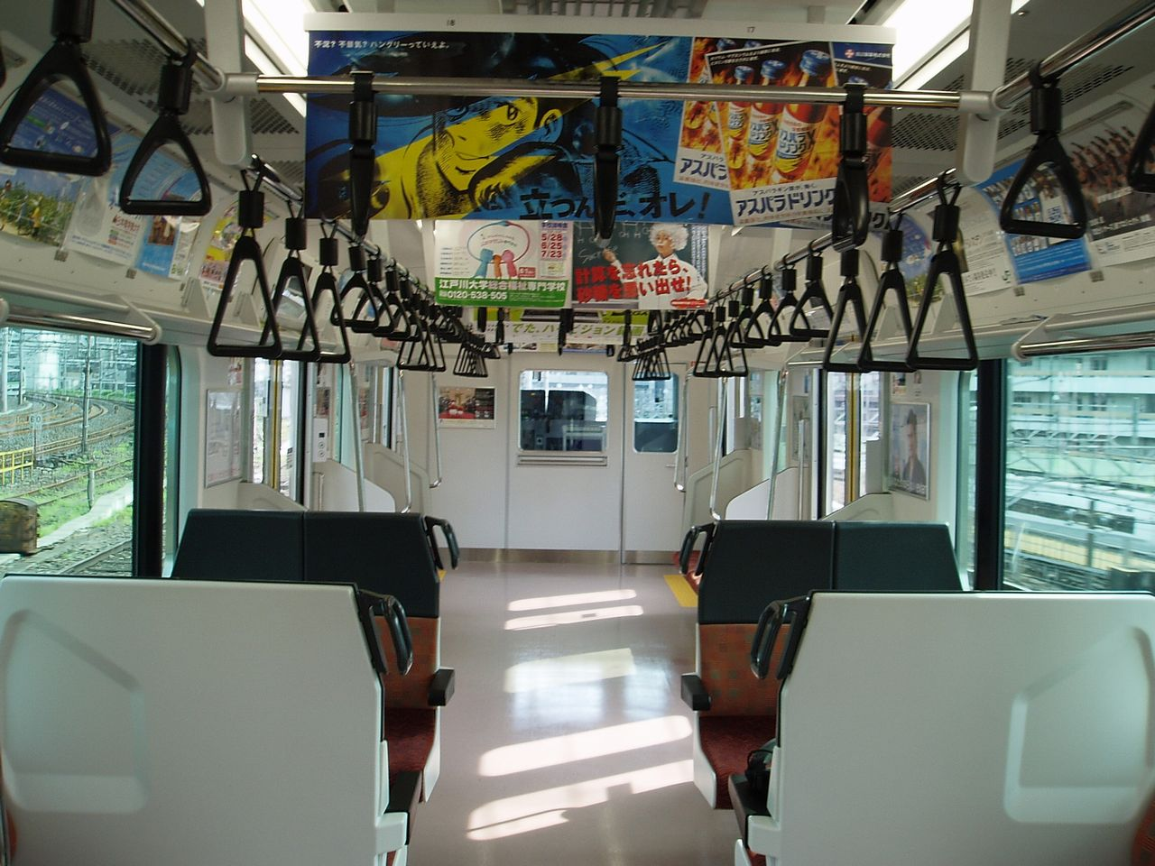 East Japan Railway Co.,type E531 inside